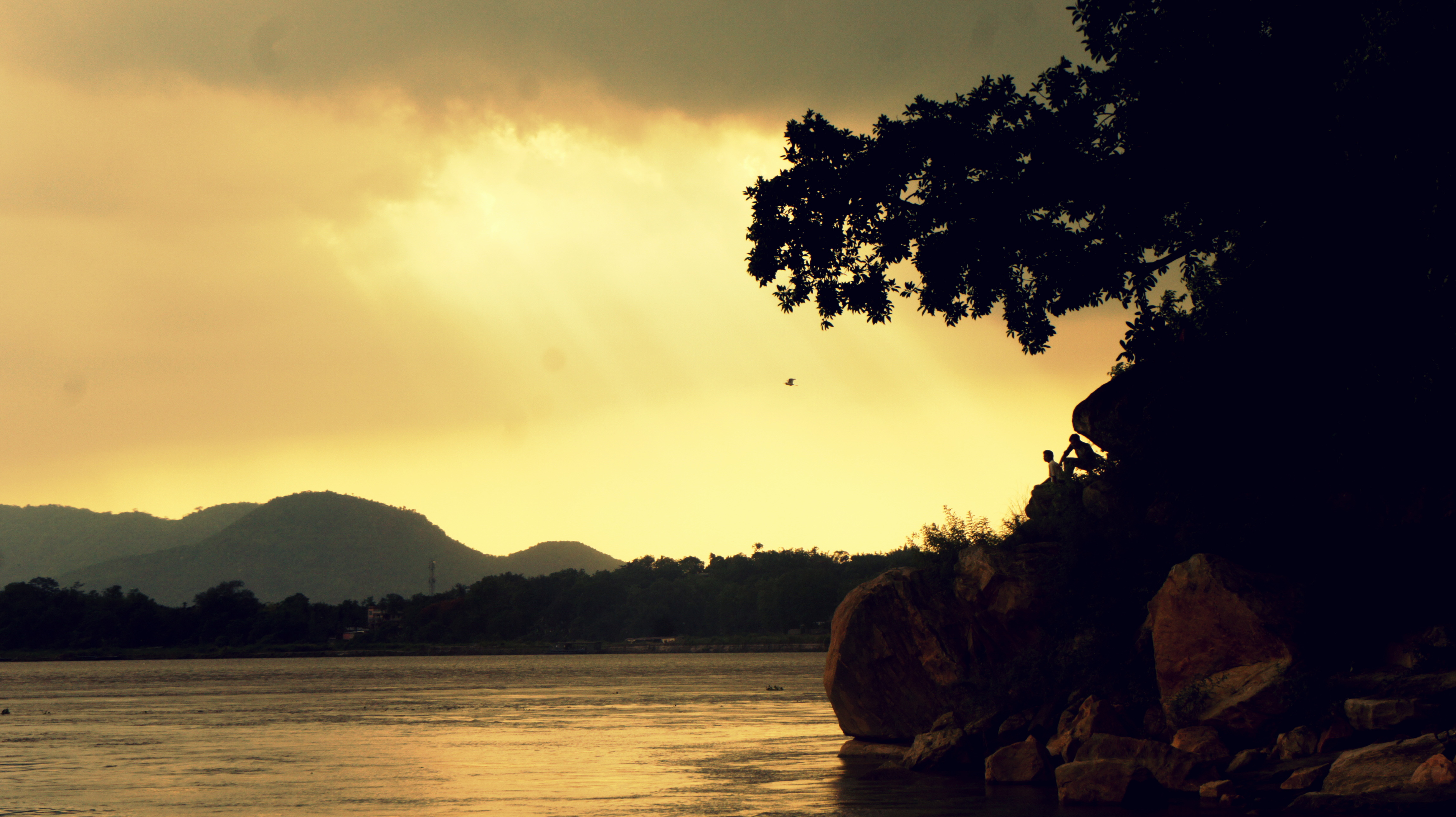 View from ferry beside Umananda Temple during sunset. Two boys enjoying the sunset can be seen. A shadowing effect has been provied.